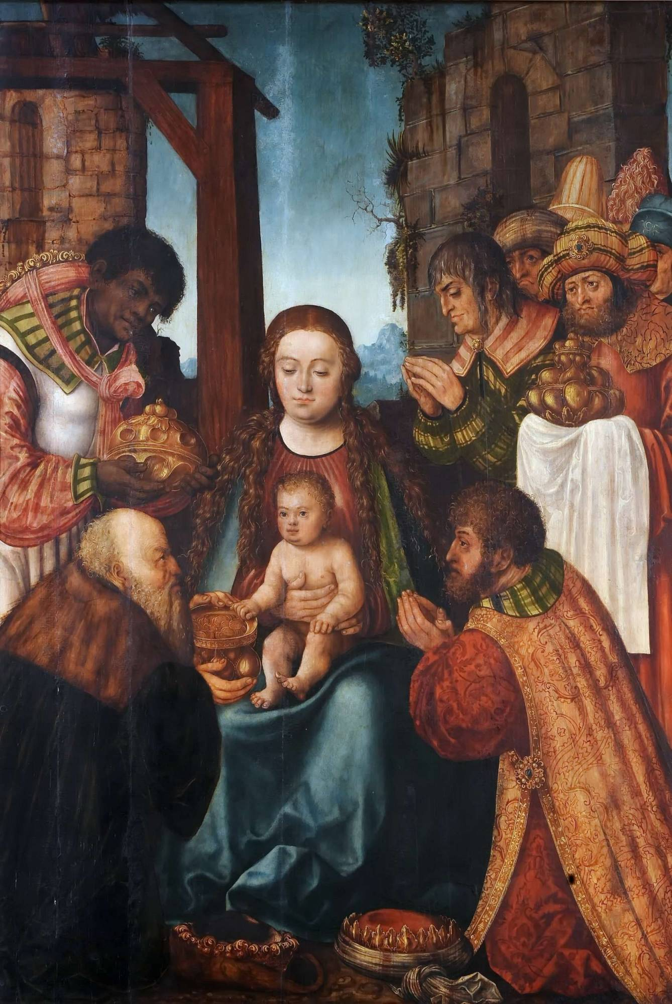 Lucas Cranach der Ältere. The Adoration of the Magi. Stadtkirche St. Wenzel, Naumburg